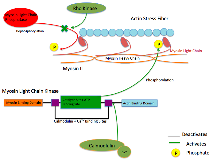 Image shows Myosin Light Chain Kinase protein allosterically activated by Calmodulin; Myosin Light Chain Kinase directly binds to Myosin II and phosphorylates it, causing a contraction. Rho Kinase A inhibits the activity of Myosin Light Chain Phosphatase.